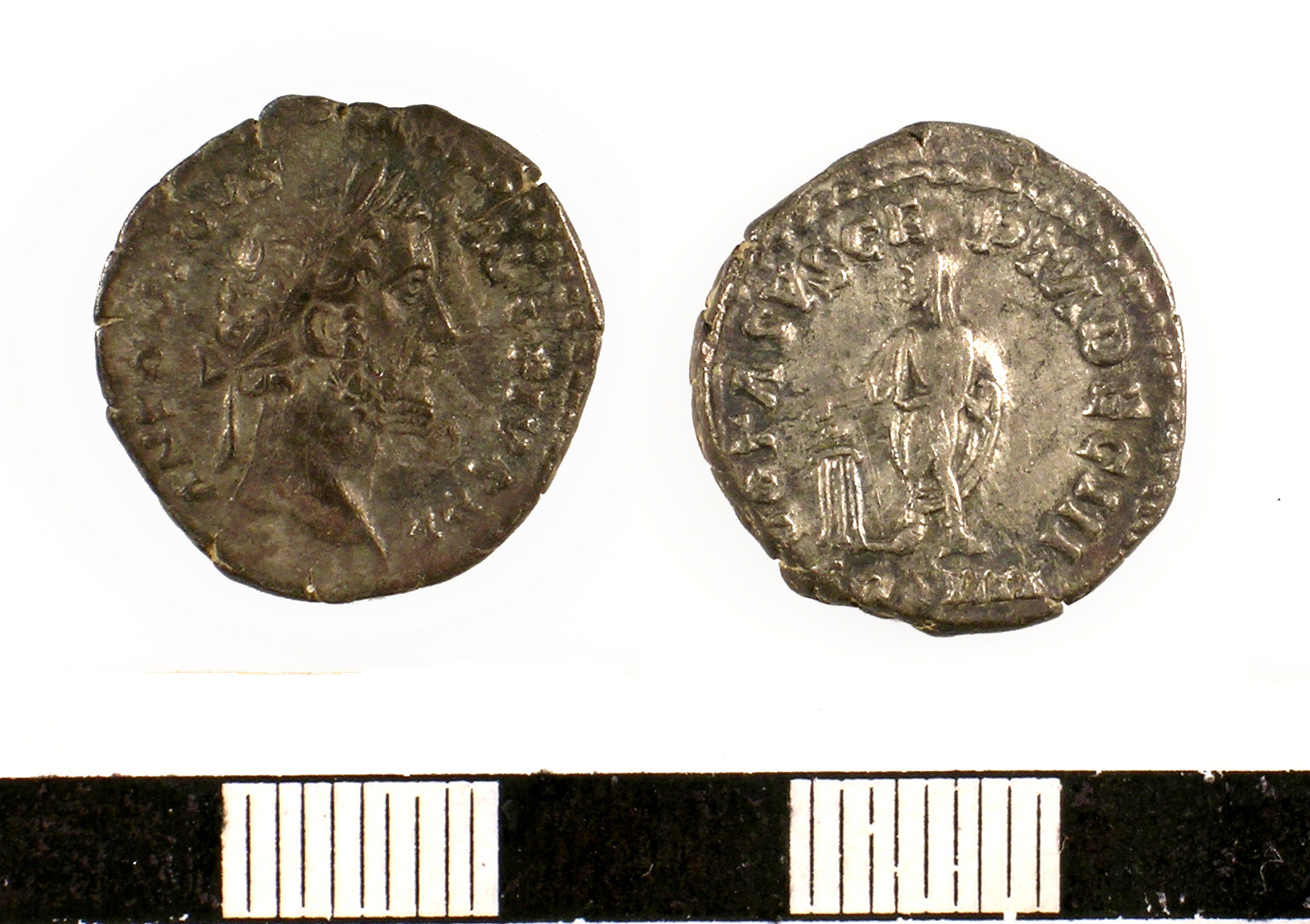 Silver denarius of Antoninus Pius, 138-161 Mint of Rome, 145-161 Obverse: ANTONINVS AVG PIVS P P; laureate head right Reverse: VOTA SVSCEPTA DEC III, COS IIII; Antoninus standing left, sacrificing out of a patera over altar and holding roll Ref: RIC III, p. 45, no. 156b